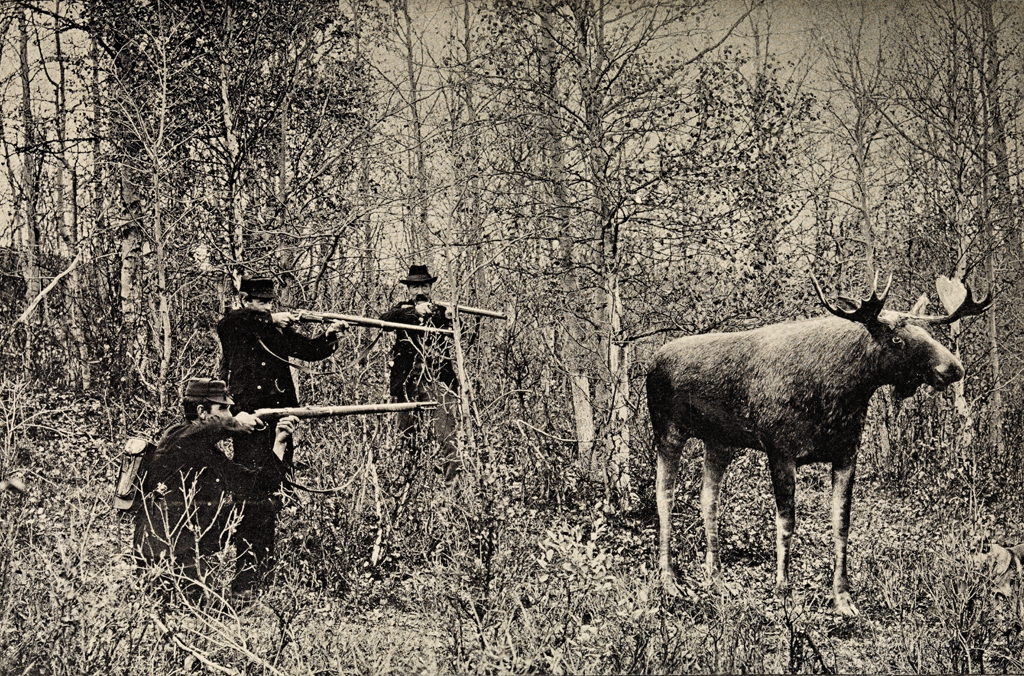 Hunting the stuffed moose.